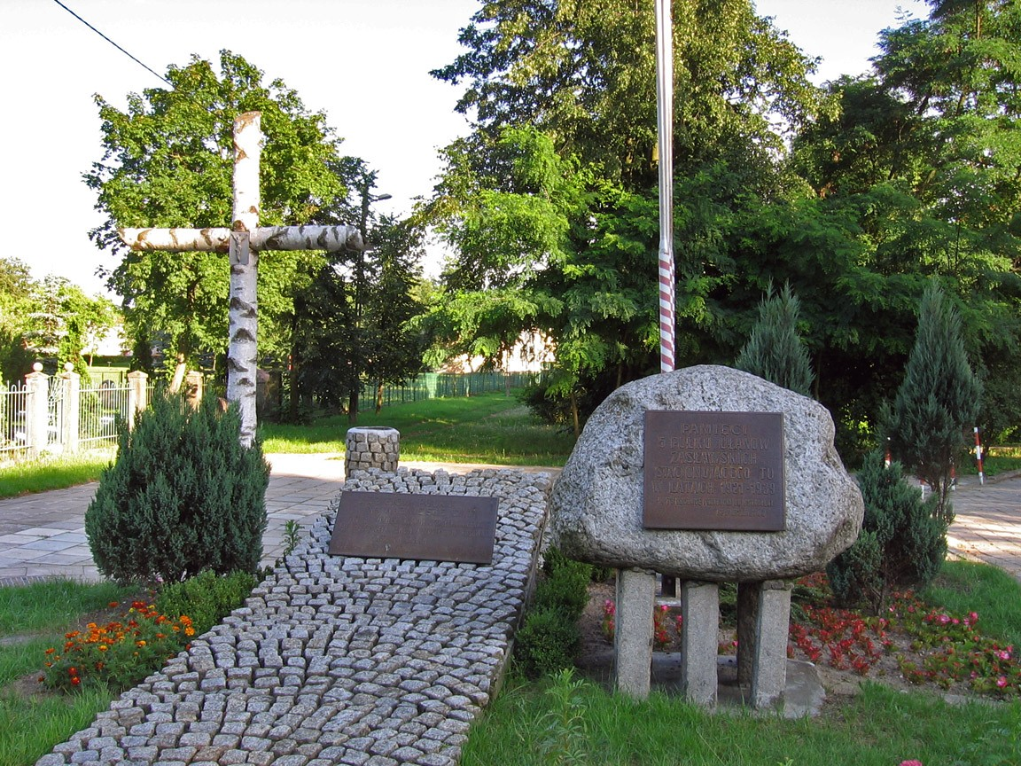 City of Ostroleka (Poland), memory plaques and a cross of the 5th Regiment of Uhlans.